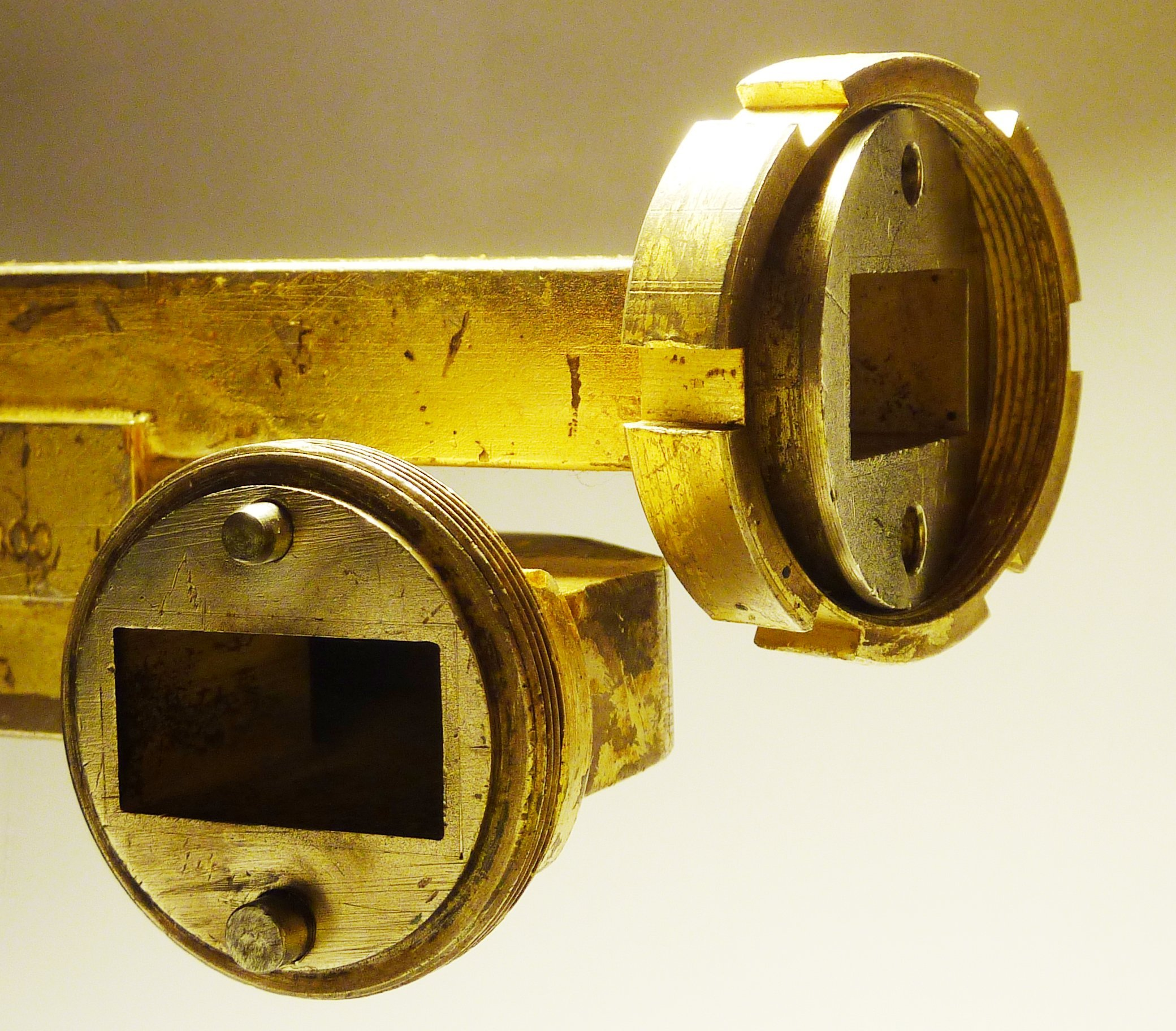 Round flanges through-mounted on WR102 waveguide. For quick assembly and disassembly, instead of being bolted together, the flanges are fastened by means of a threaded collar.